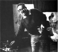 Hassel Smith in his Sebastopol studio (northern California), circa 1964